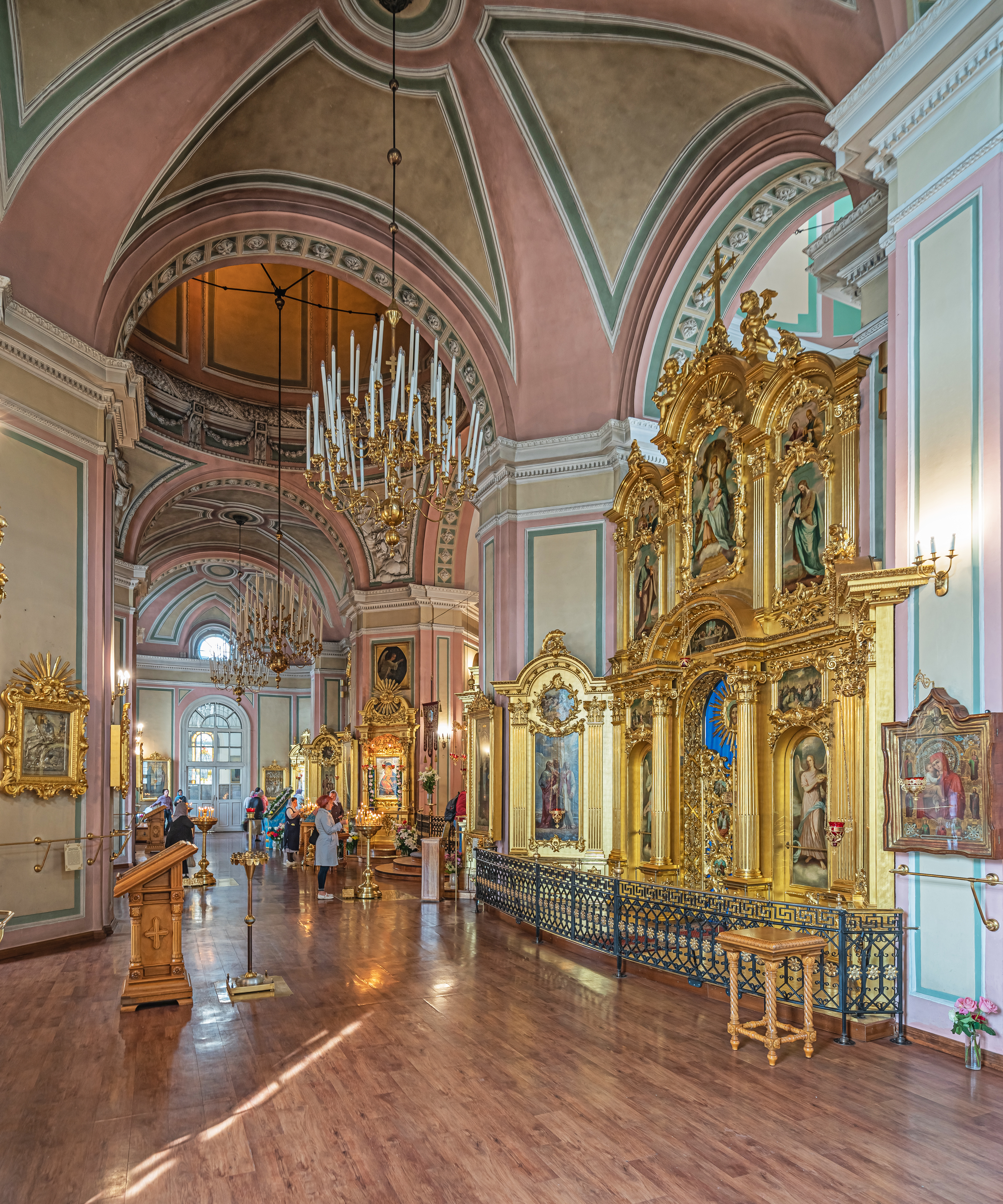 Interior of the upper floor of Our Lady of Vladimir Church in Saint Petersburg, Russia